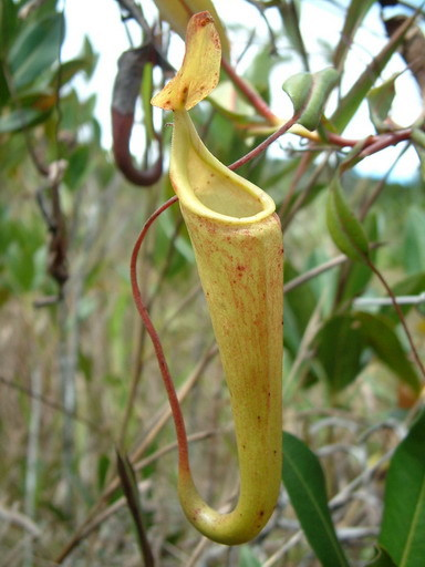 Nepenthes maxima from Wamena, Western New Guinea (~1700 m asl)